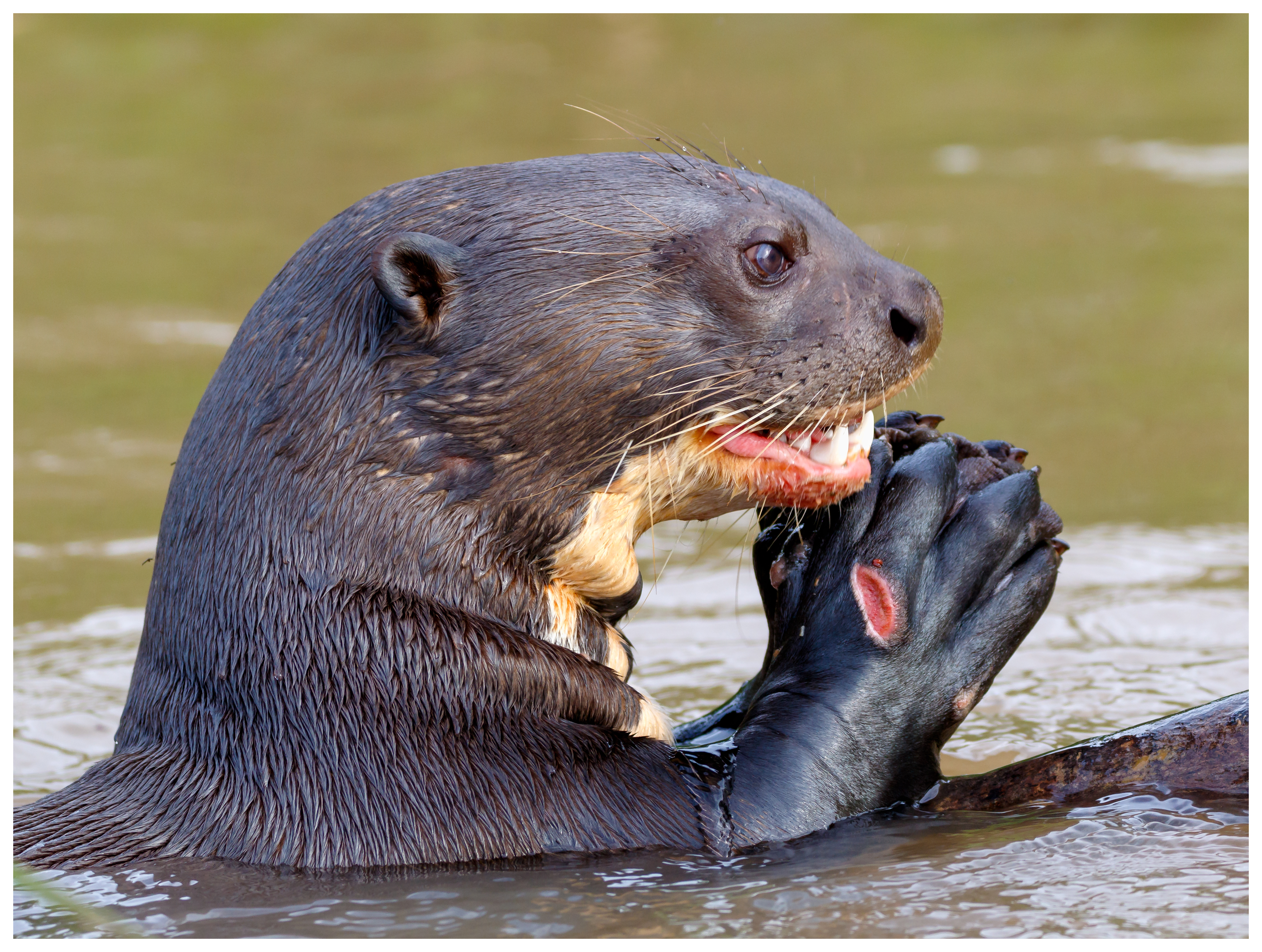 On the Piquiri river, Pantanal.